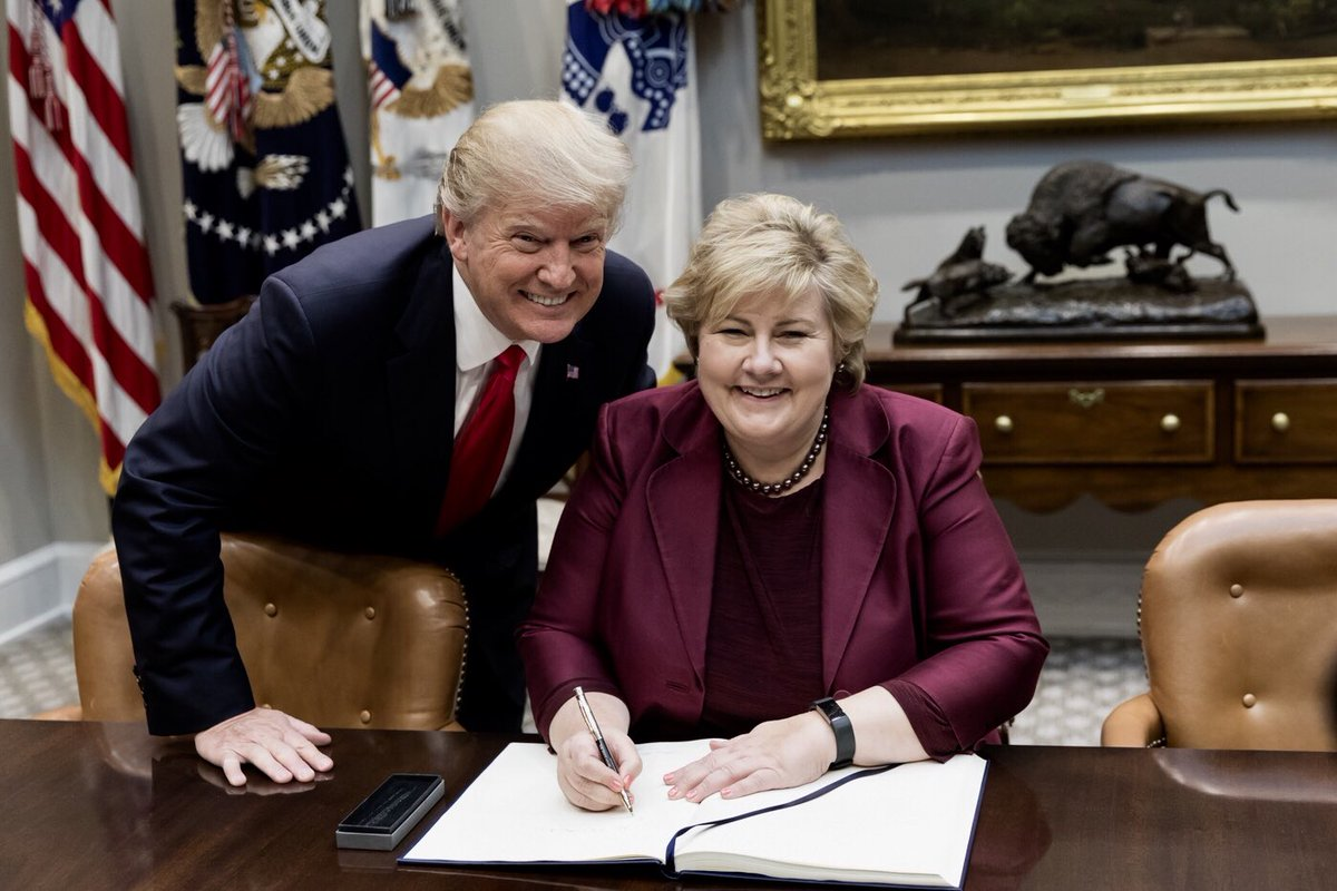 Today, it was my great honor to welcome Prime Minister Erna Solberg of Norway to the @WhiteHouse - a great friend and ally of the United States! Joint press conference